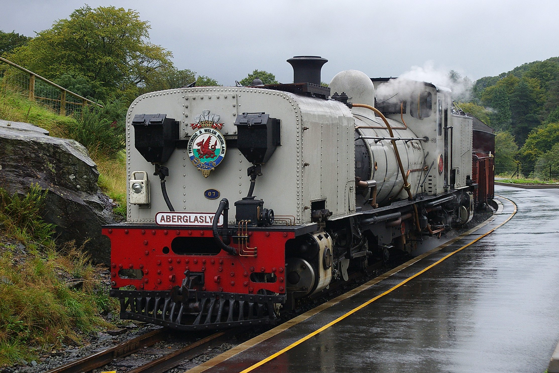 Welsh Highland Railway locomotive NGG 16 Garratt No. 87 at Beddgelert station.